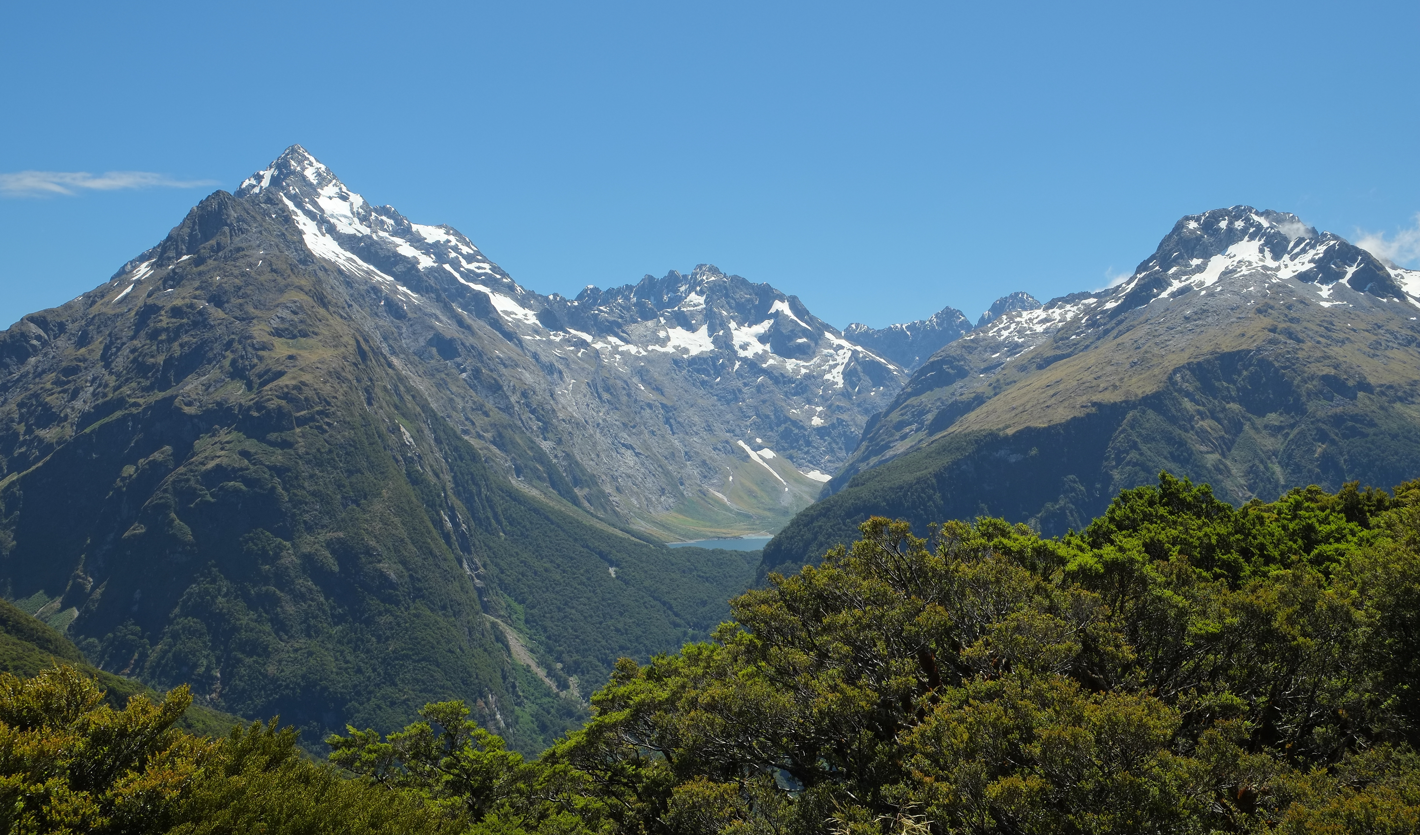 View from Key Summit towards Lake Marian, with Mt Christina on the left and Mount Crosscut in the center above the lake